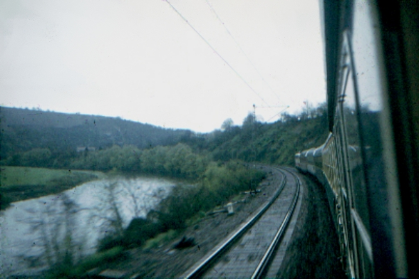 An express train running along the river Saar between Saarbrücken and Trier, 1982.